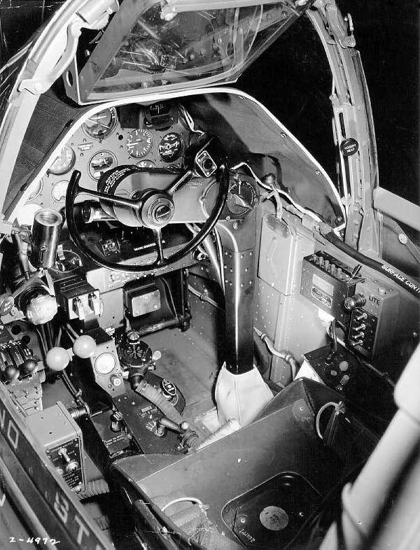 Lockheed P-38G cockpit looking in from left wing